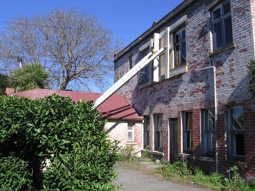 Bracing installed at Linwood House after the September 2010 earthquake.